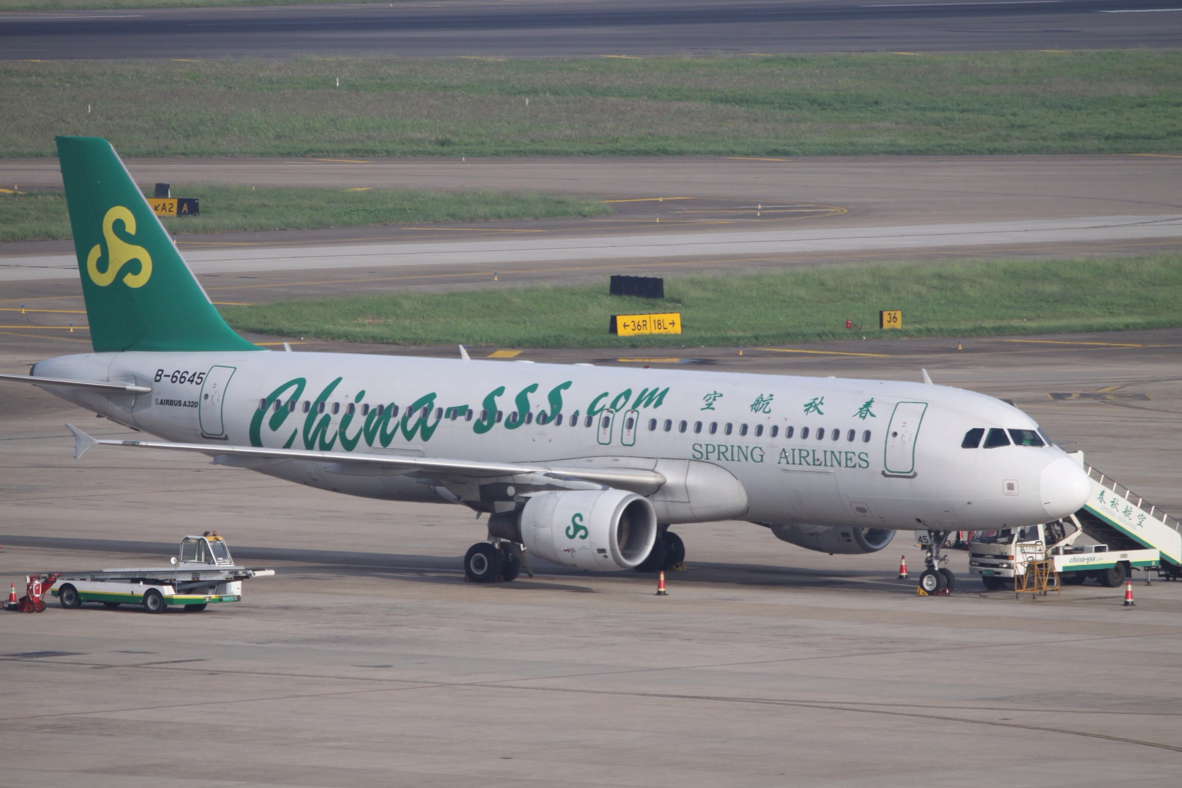 At Shanghai Hongqiao